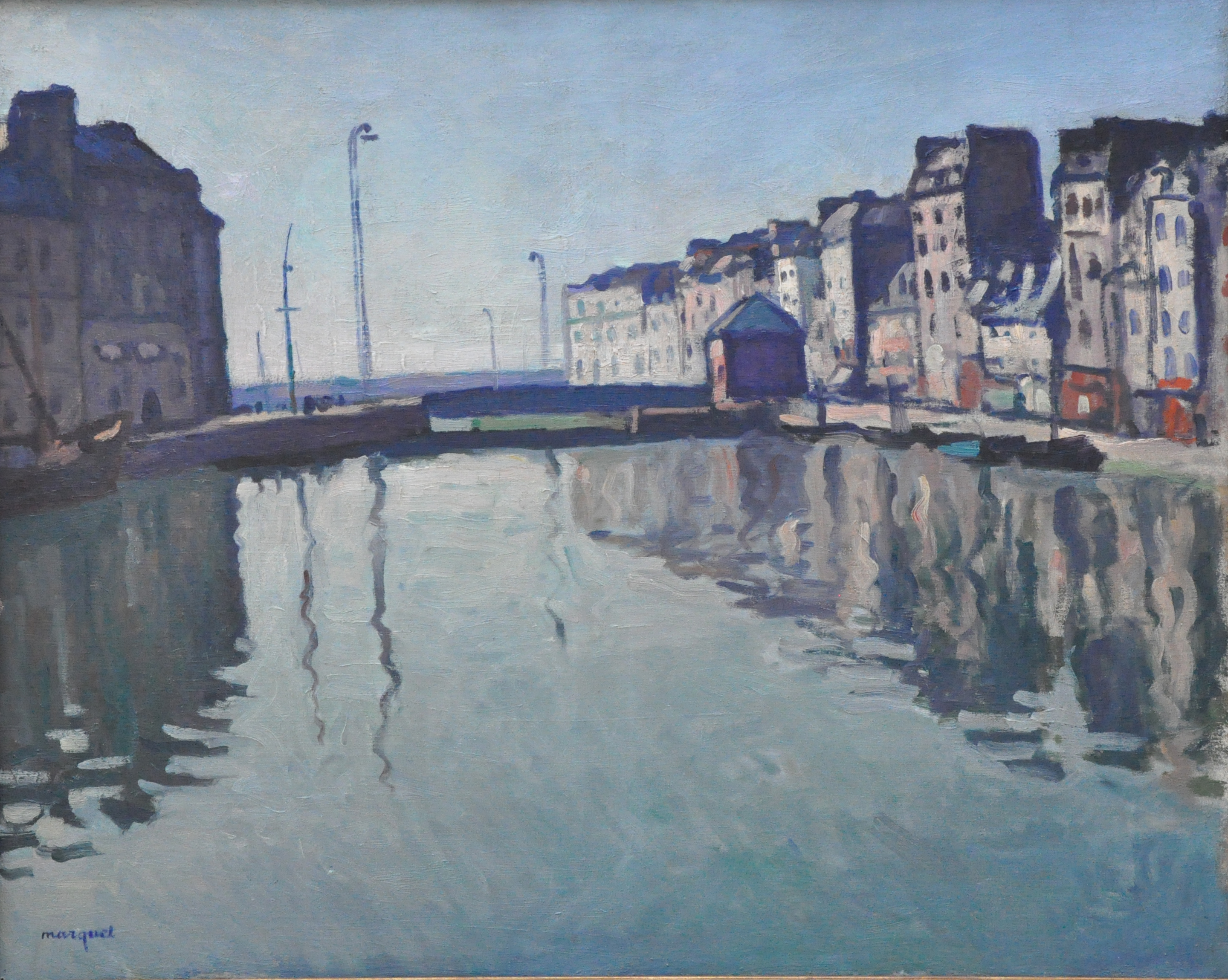 Bassin du Roy (Le Havre, France, Normandy)